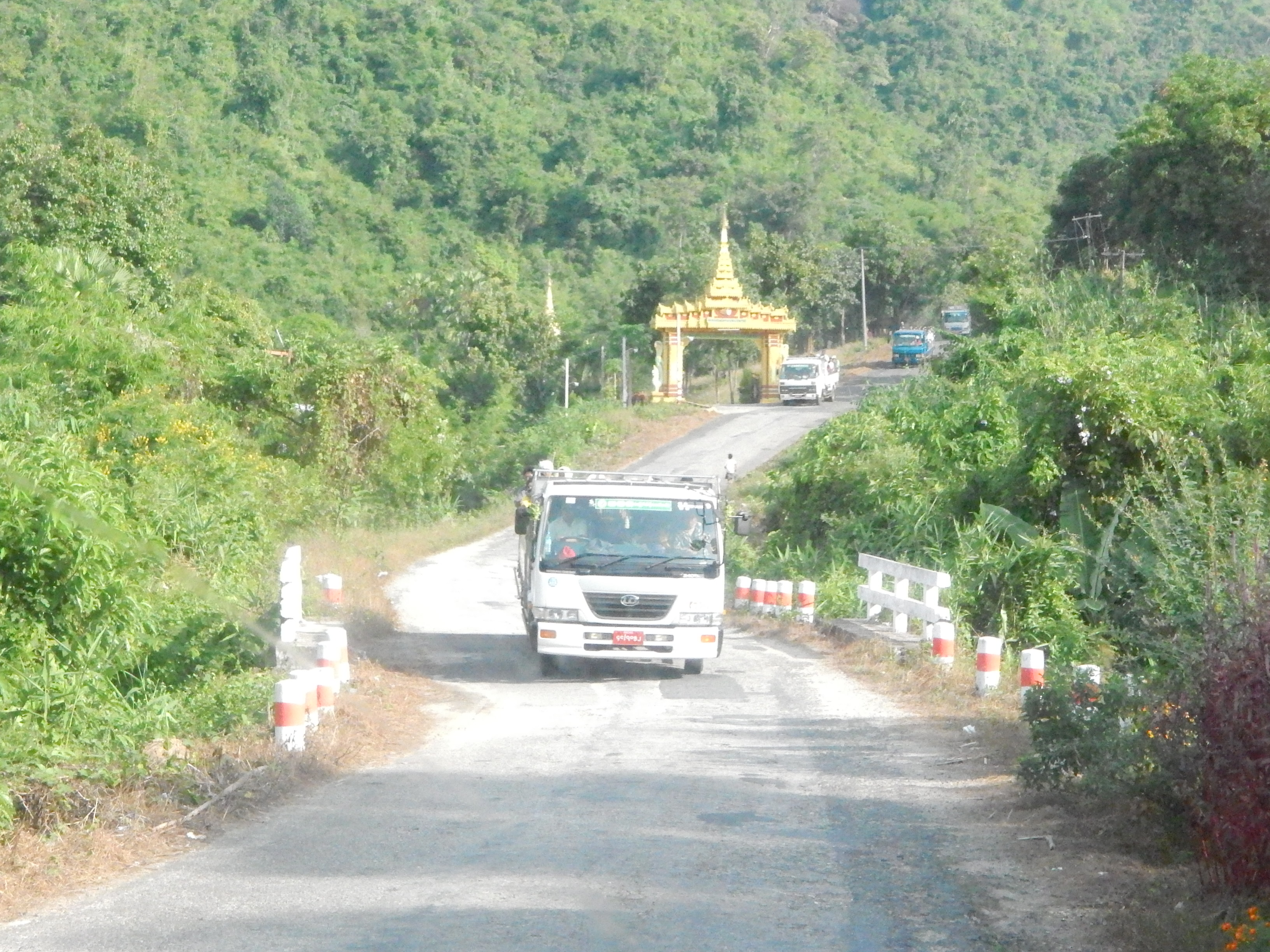 Road to Kyaikhtiyo Pagoda, Mon State, Myanmar